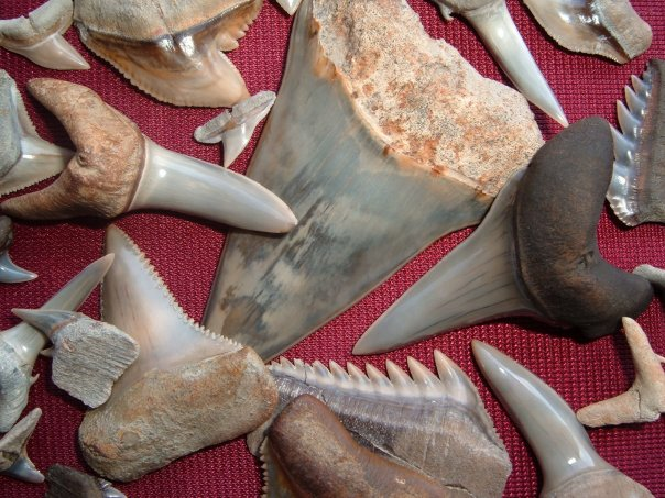 Shark fossil teeth